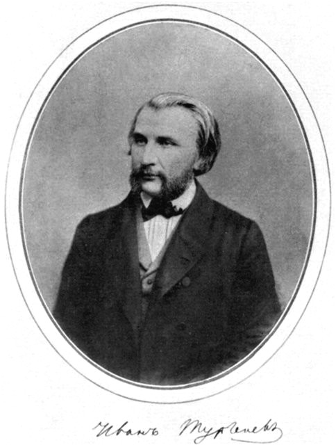 Photo of Ivan Turgenev by S.L.Levitsky, 1856